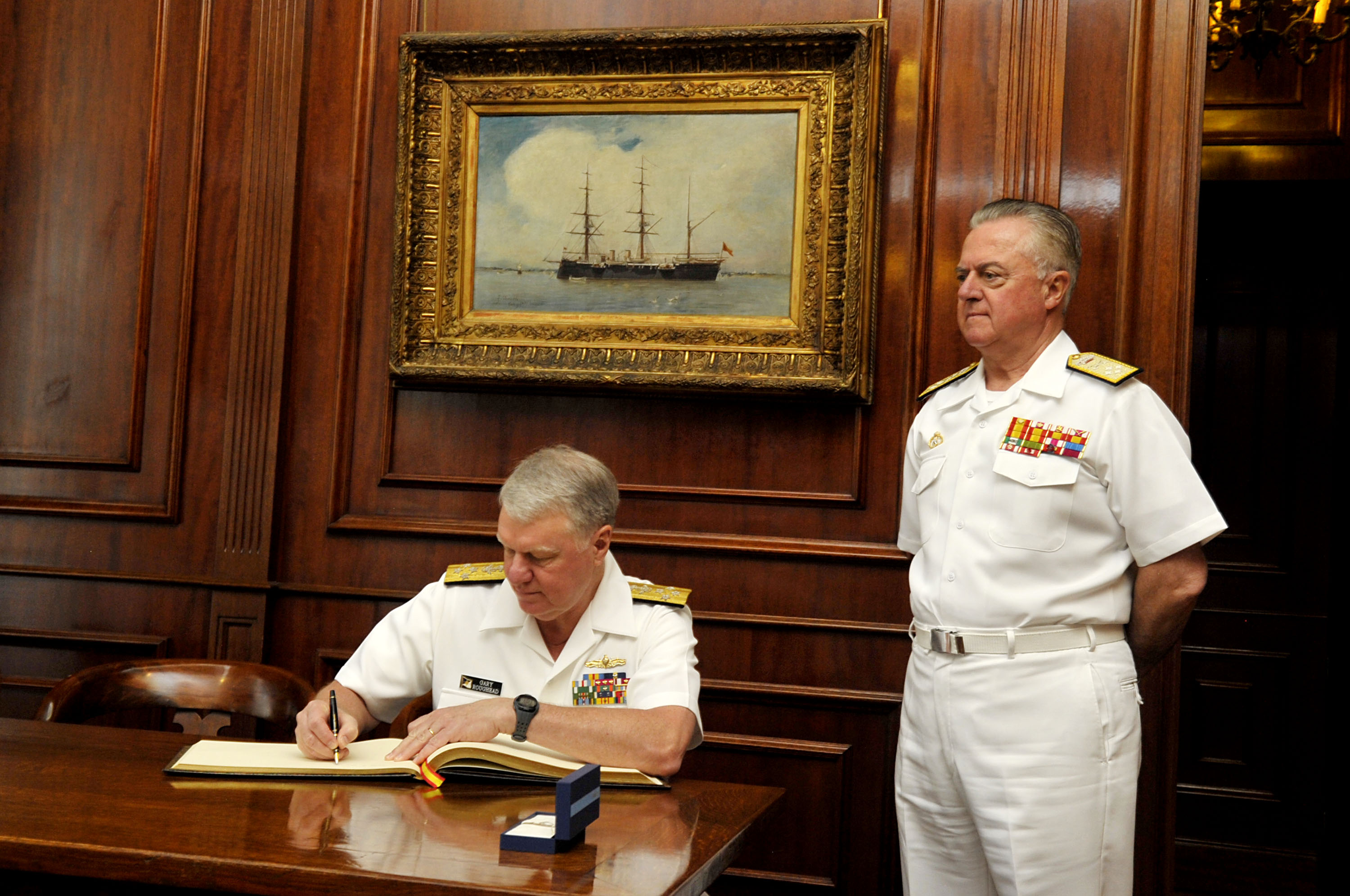 MADRID (May 23, 2011) Chief of Naval Operations (CNO) Adm. Gary Roughead signs a guest book while Adm. Gen. Manuel Rebollo, Chief of Staff of Spanish navy looks on during a visit to the Spanish navy headquarters in Madrid. (U.S. Navy photo by Chief Mass Communication Specialist Tiffini Jones Vanderwyst/Released)